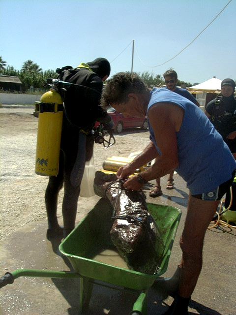 Avner Raban -Israeli Marine Archaeology - In Limantepe Turkey אבנר רבן, ארכאולוג ימי, צהחוג לציוויליזציות ימיות באוניברסיטת חיפה צילומים בחפירה משנת 2003 בלימנטפה טורקיה This work is free and may be used by anyone for any purpose. If you wish to use this content, you do not need to request permission as long as you follow any licensing requirements mentioned on this page.